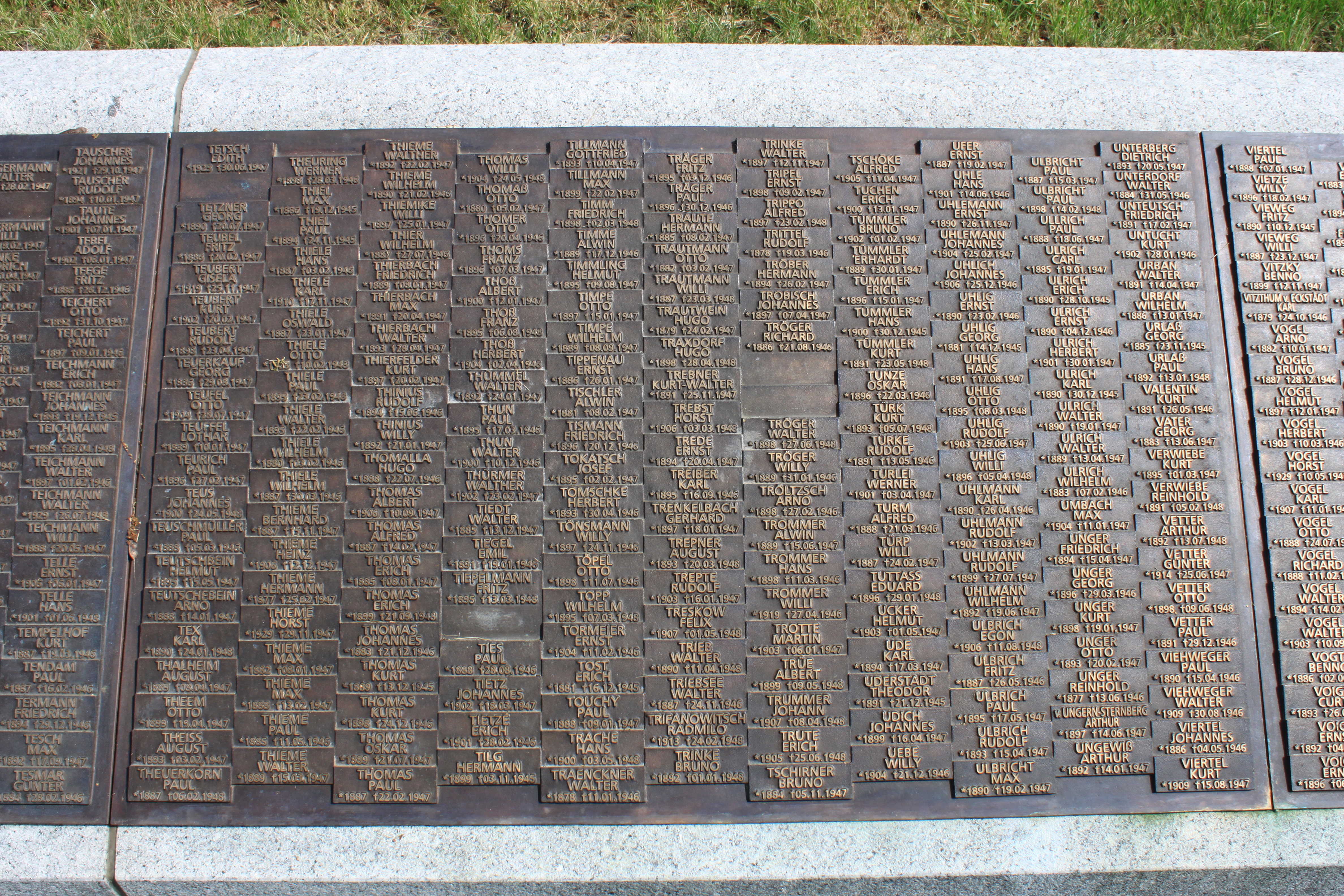 Memorial of the Stalag IVB/Speziallager Nr. 1 Mühlberg/Elbe